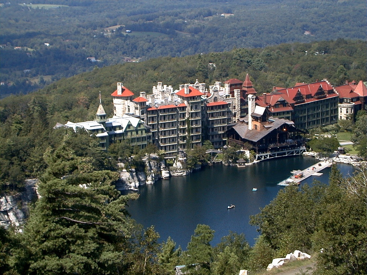 Mohonk Mountain House Taken by User:Mwanner, 20 July, 2000.